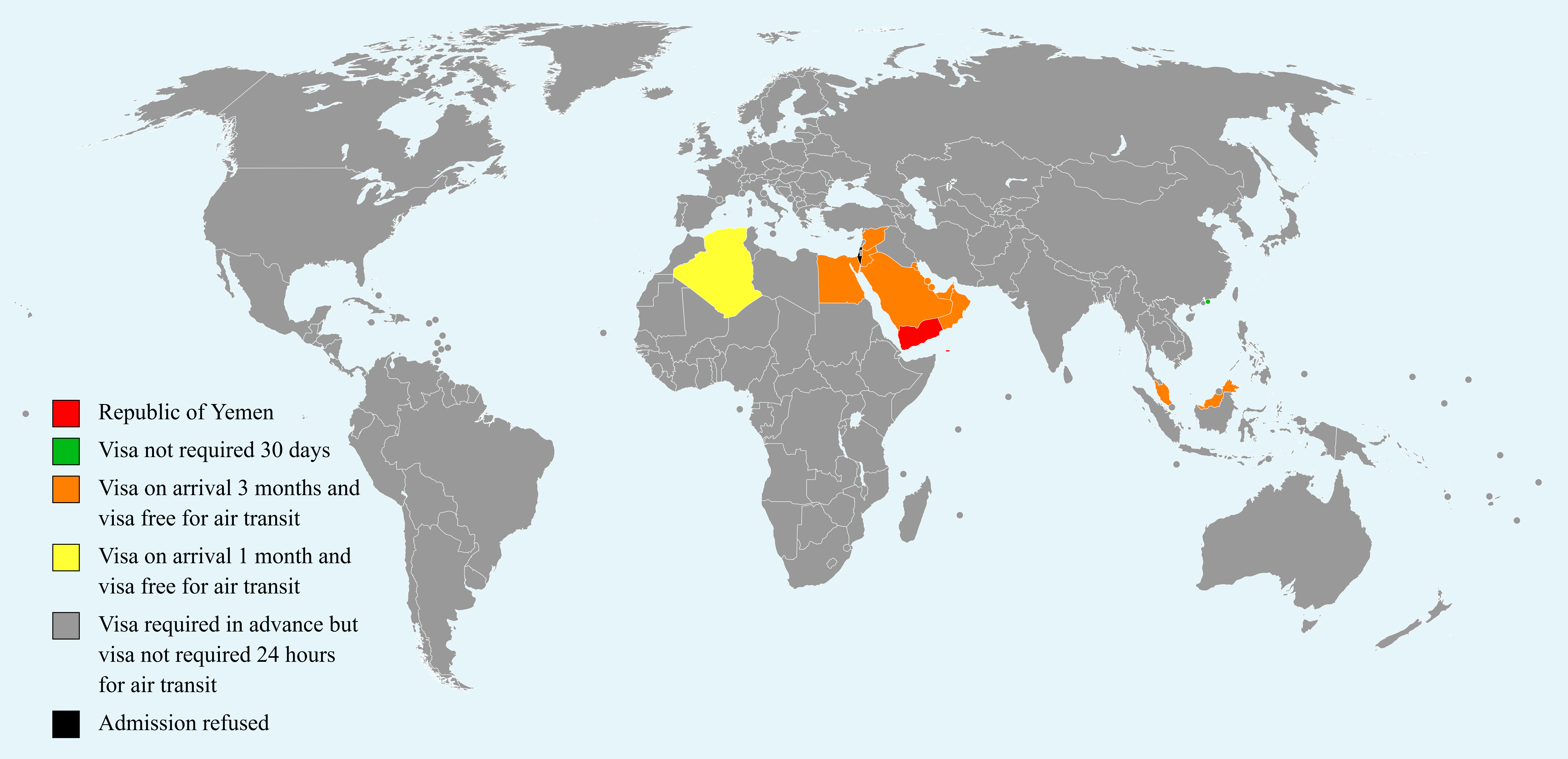 Visa policy of Yemen Yemen Visa-free Visa on arrival Visa required